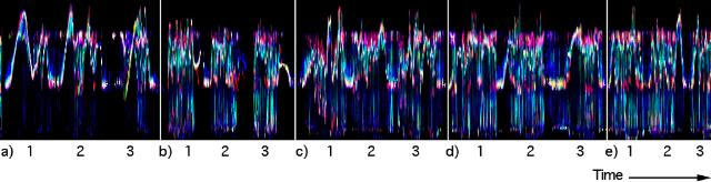 A motiongram of the improvised dance movement to music (5 minutes).